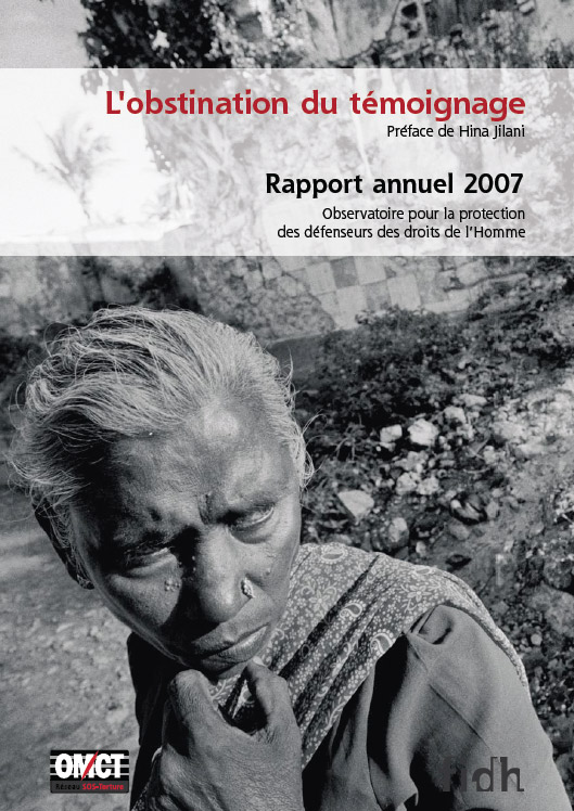 Front cover of the 2007 annual report of the Observatory for the protection of Human Rights defenders